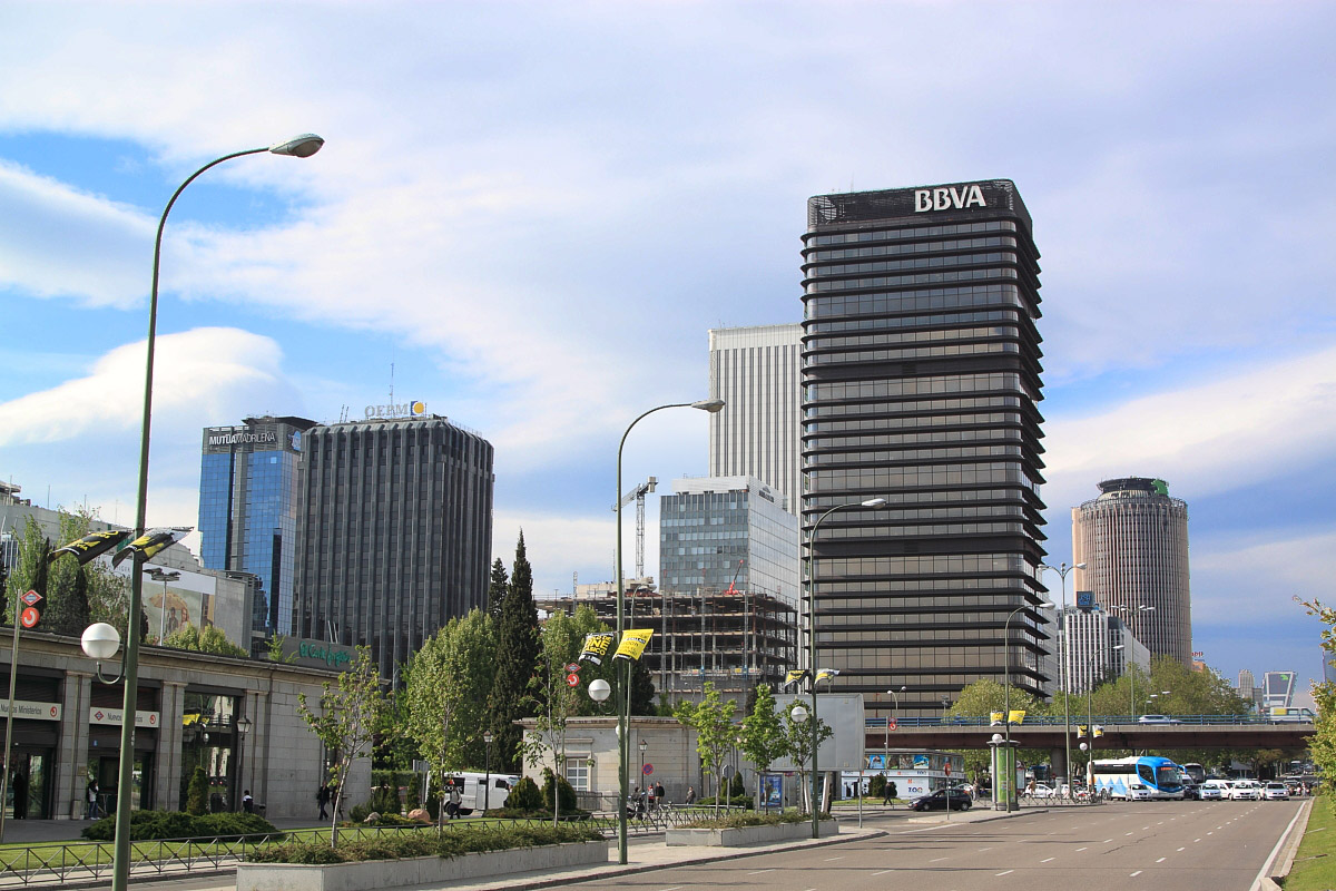 A view of AZCA (a business park) from Paseo de la Castellana (avenue) in Madrid (Spain).